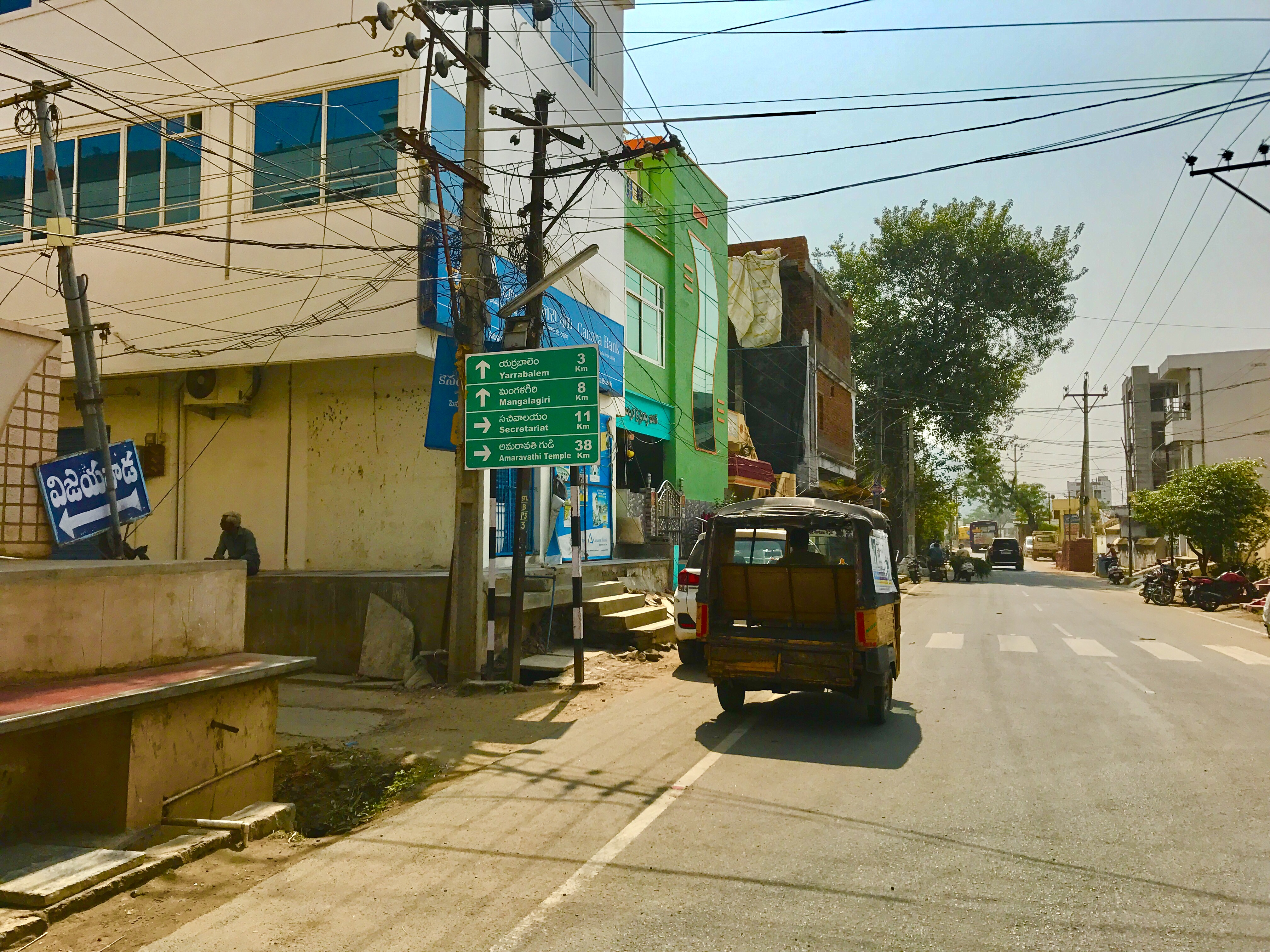 Yerrabalem sign board